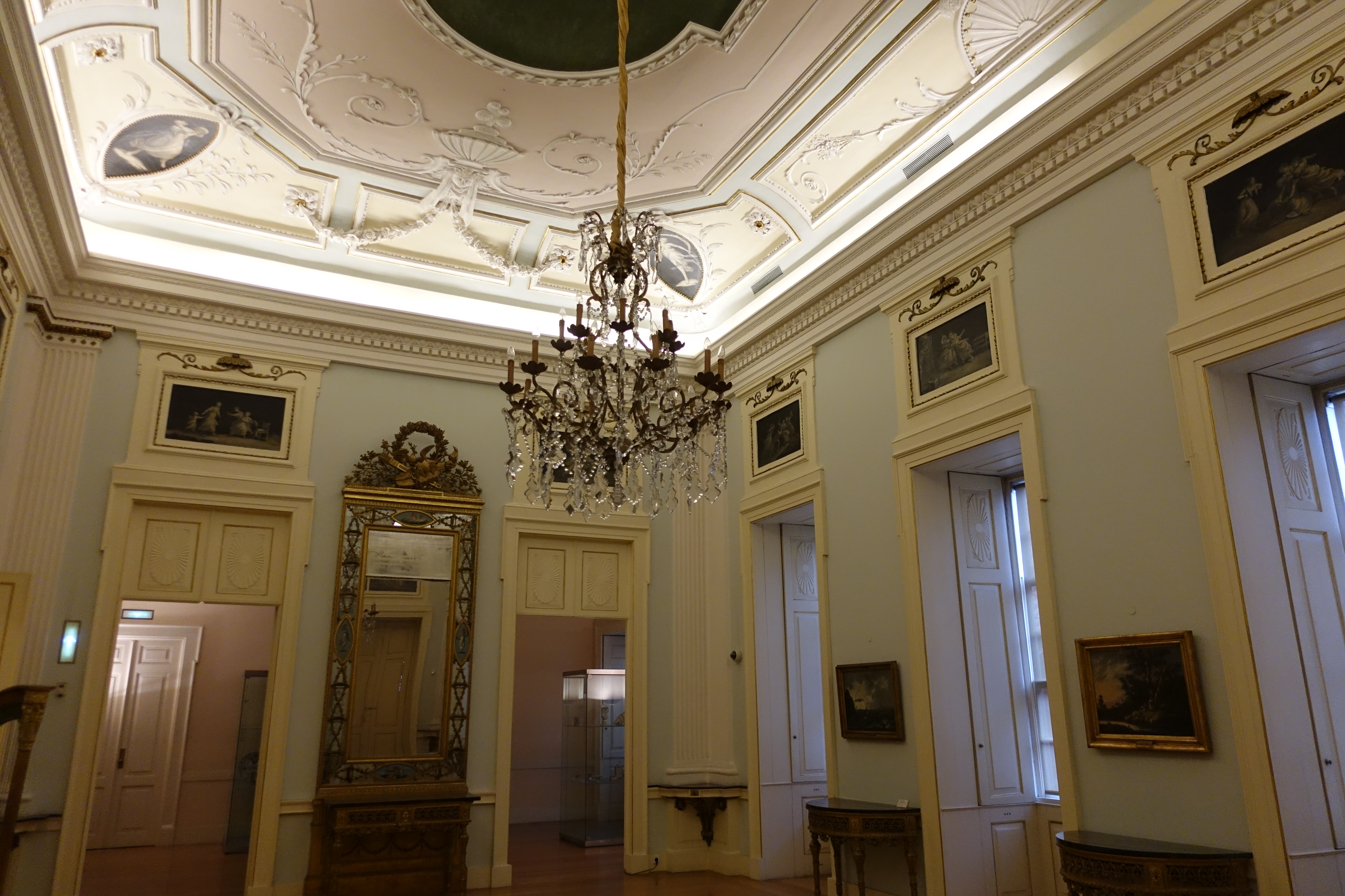 Museu Nacional de Soares dos Reis, Porto, Portugal